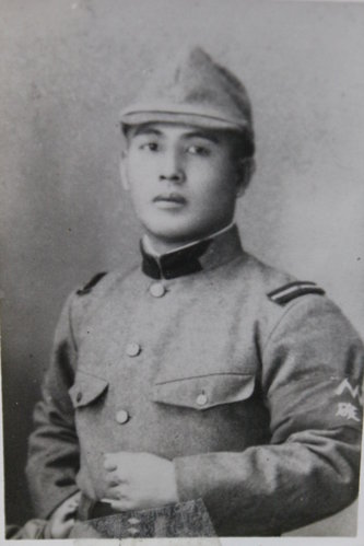 Otōemon Hiroeda